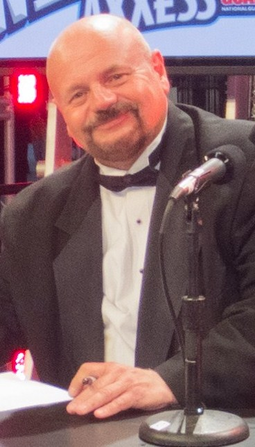 Howard Finkel at WrestleMania 28 Axxess